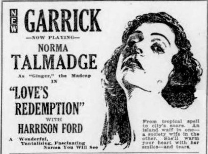 Newspaper advertisement for the American drama film Love's Redemption (1921) with Norma Talmadge, on page 4 of the June 3, 1922 Duluth Herald.